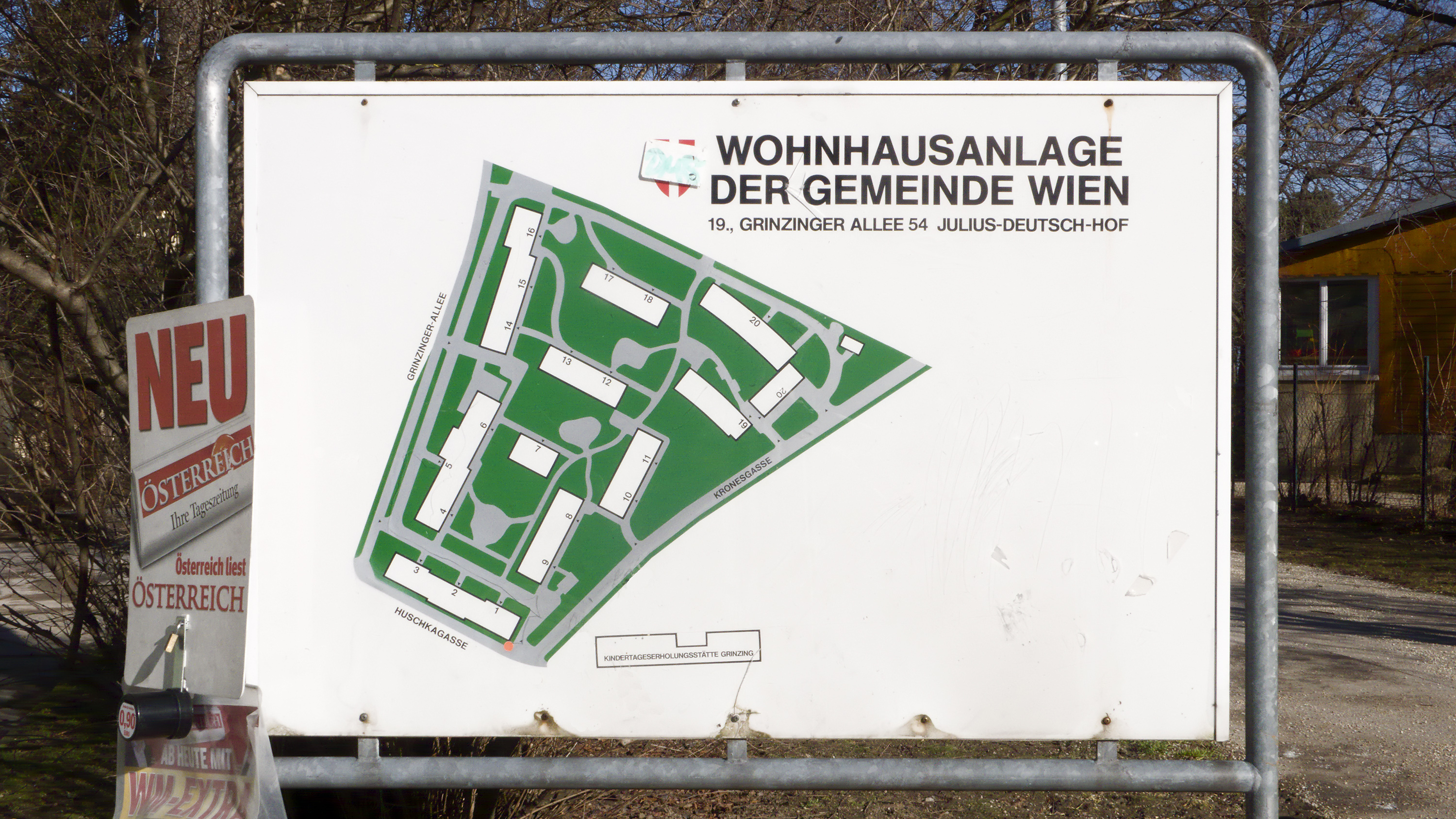 Residential buildings Julius-Deutsch-Hof in Vienna Döbling